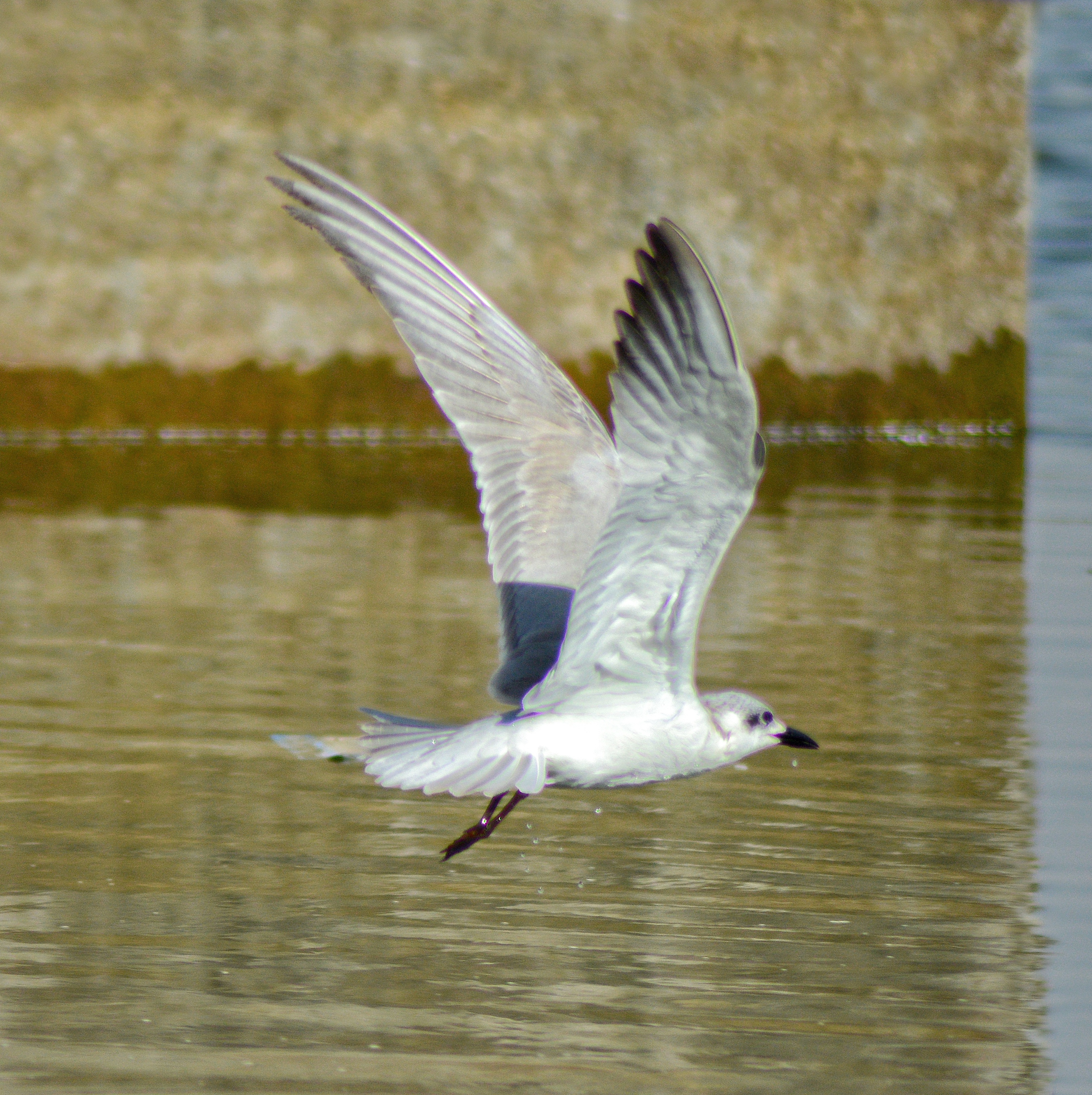 Gull-billed Tern Gelochelidon nilotica, immature in flight, India.